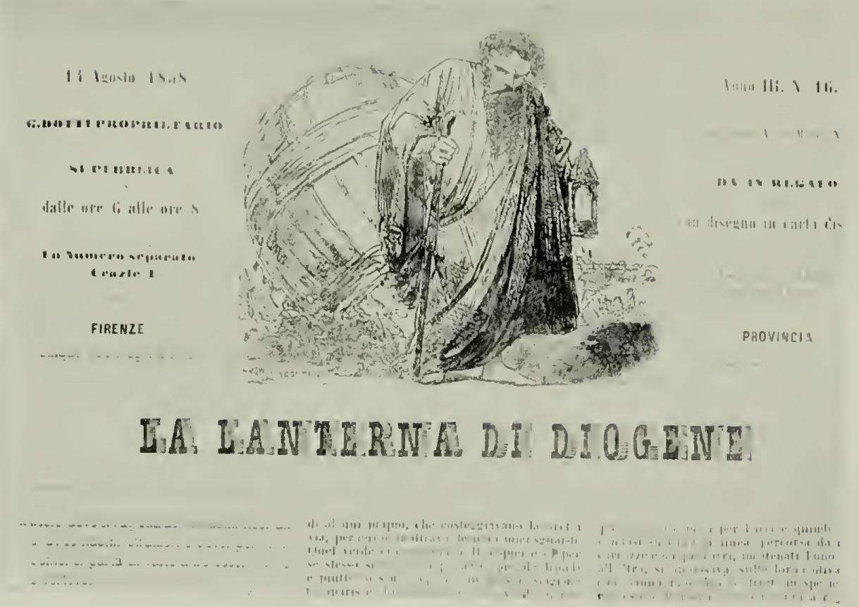 first page of satirical newspaper La Lanterna di Diogene, 14 august 1858